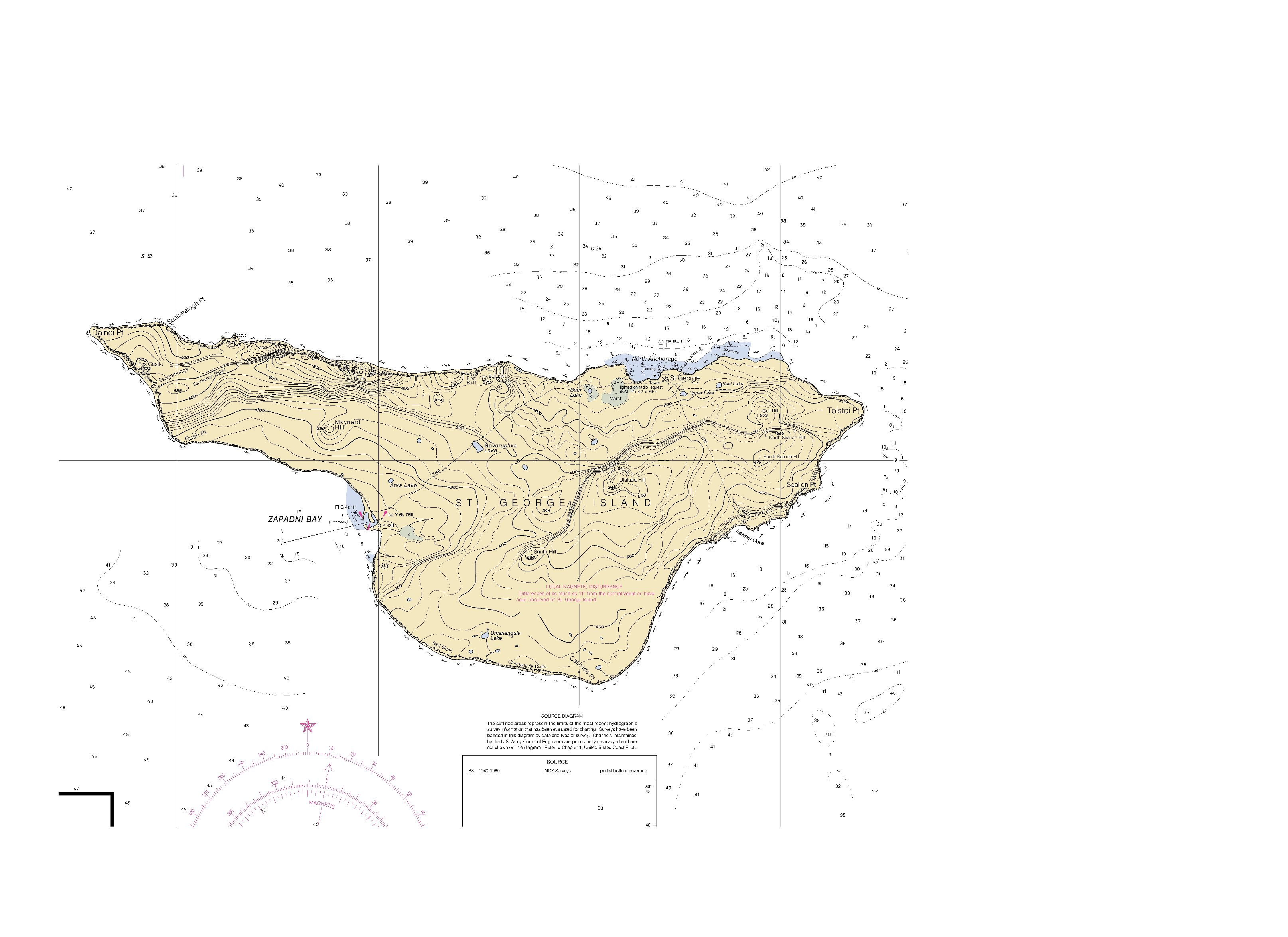 nautical chart of Saint George Island, Bering Sea, Alaska